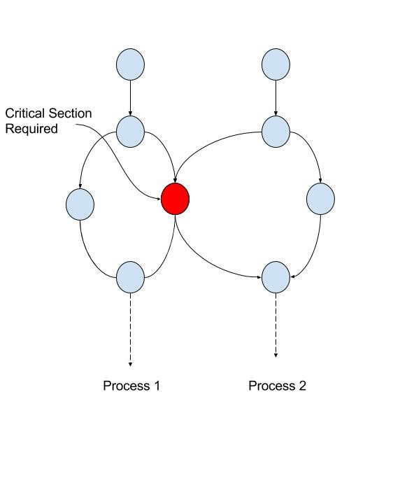 Flowgraph description of critical section